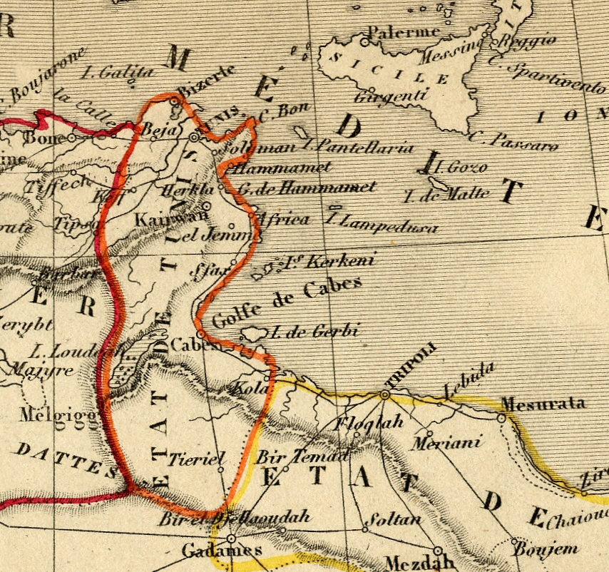 Map of Tunisia (wp-EN) with french names made by Alexandre Vuillemin in 1843 extracted from his “Atlas universel de géographie ancienne et moderne à l'usage des pensionnats”. Extract from a complete map of Northern Africa.